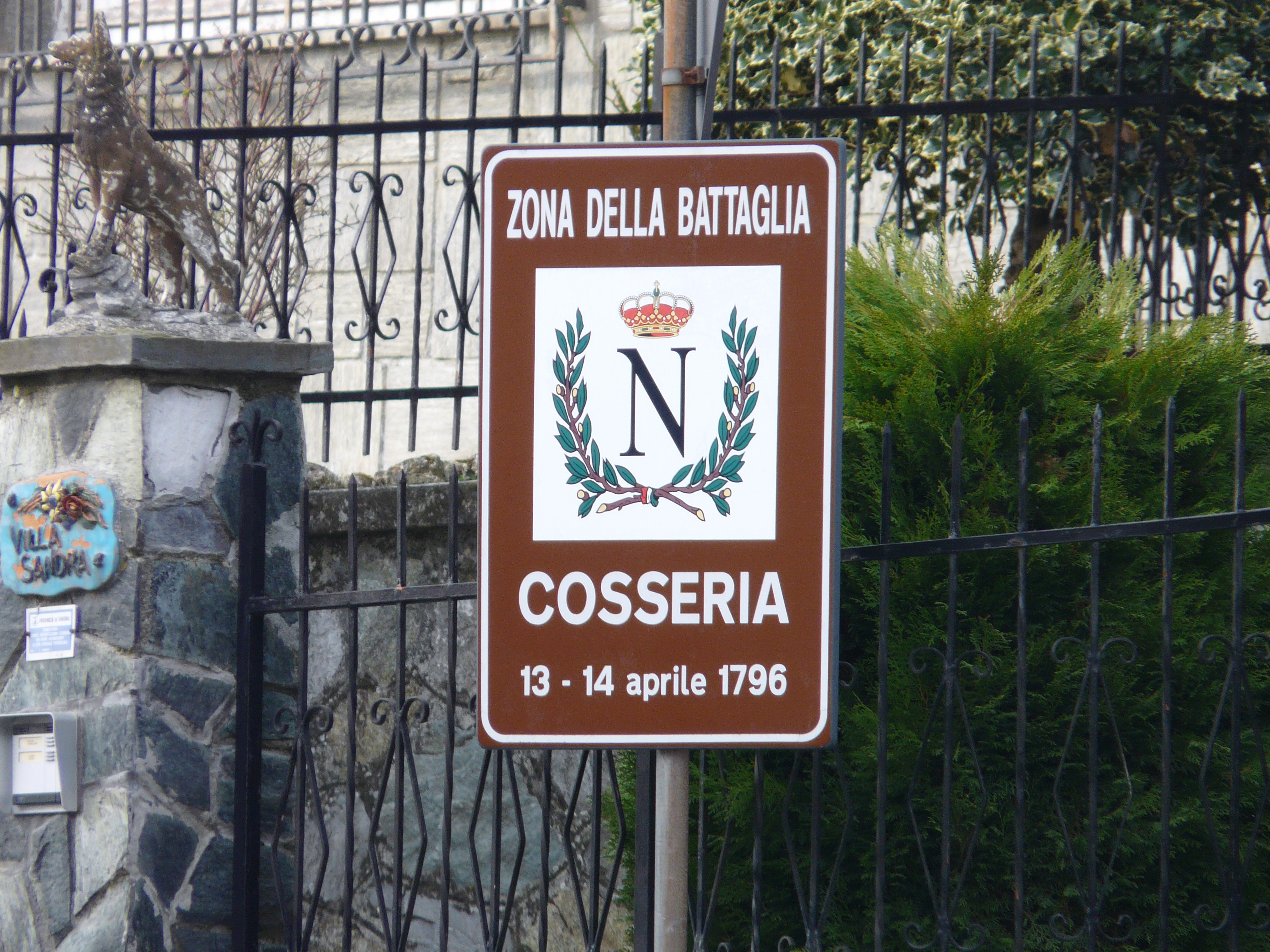 commemorative plaque to the "Battle of Cosseria" Of Napoleon from the 13th to the 14th of April, 1796